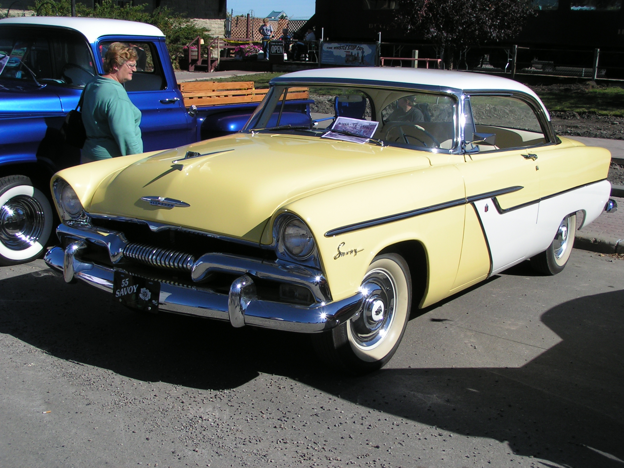 Plymouth Savoy